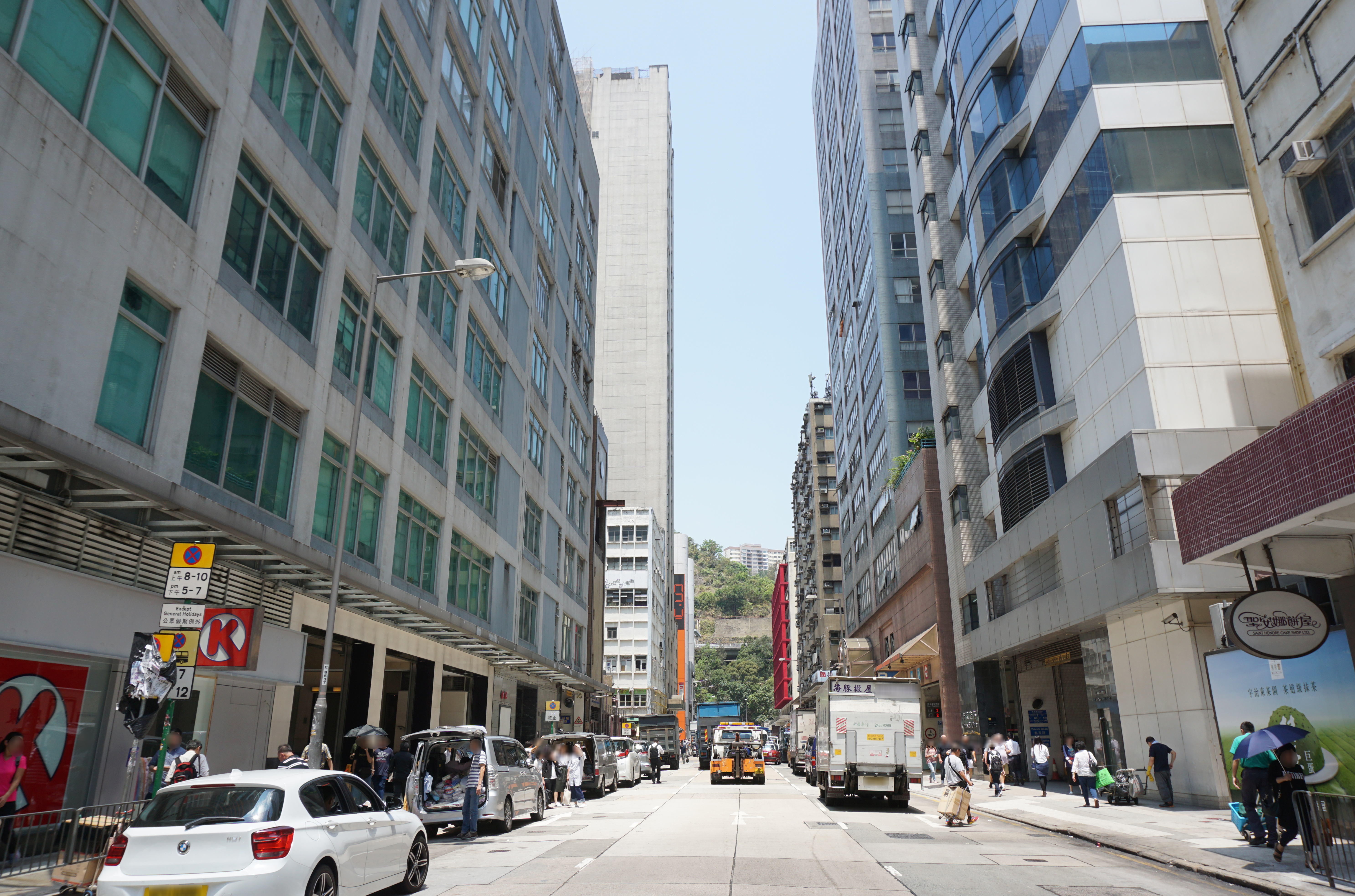 Tai Nan West Street in Lai Chi Kok, Hong Kong.